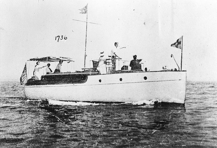 The motorboat Natoya, prior to her service as the United States Navy patrol boat USS Natoya (SP-396).